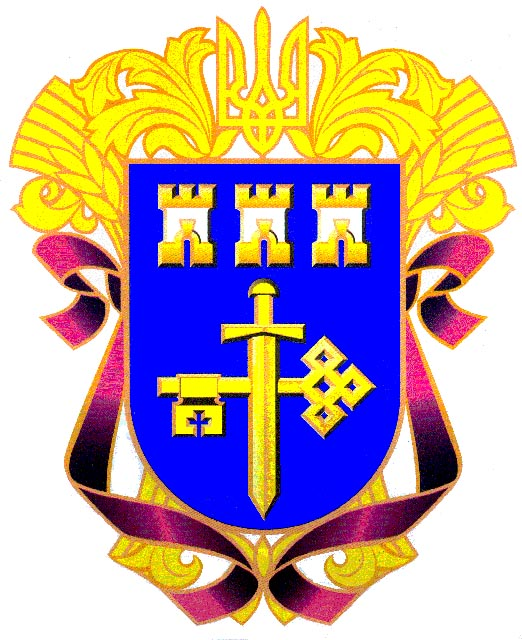 Coats of arms of Ternopil oblast since 2003.